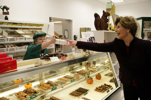 Mrs. Laura Bush purchases a box of homemade chocolates Tuesday, October 24, 2006, at Seroogy’s, a family owned business that has been making chocolates for more than a hundred years in De Pere, Wisconsin. White House photo by Shealah Craighead